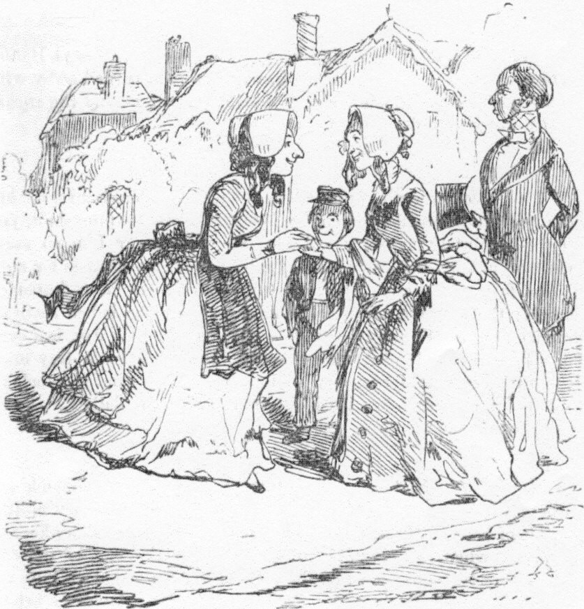 Engraving on wood by W. M. Thackeray himself, for the first edition of The Book of Snobs. Chapter XXVI, "On some country snobs".